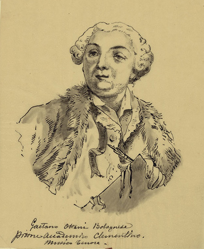 Portrait of Gaetano Ottani, painter (-1801).